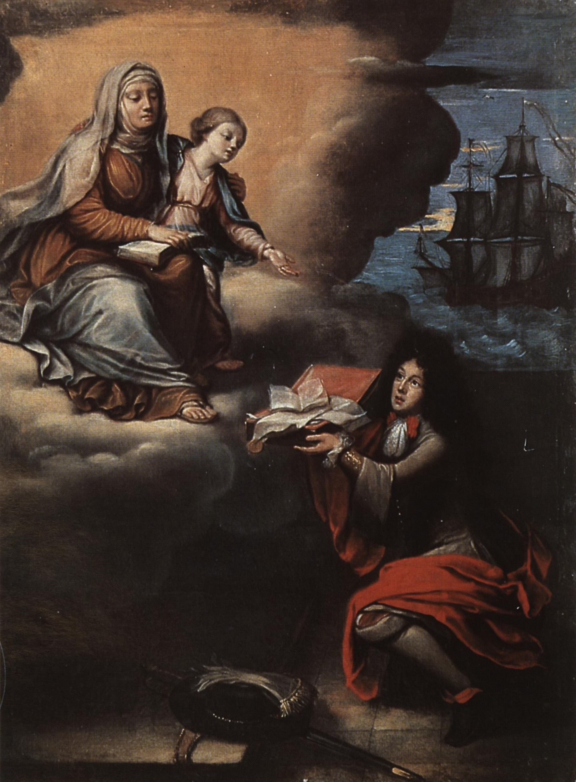 Ex-voto Pierre Le Moyne d'Iberville, unknown artist, oil, 76.2 x 56.5 cm. 1698 to 1700. Historial Museum, St. Anne de Beaupre.